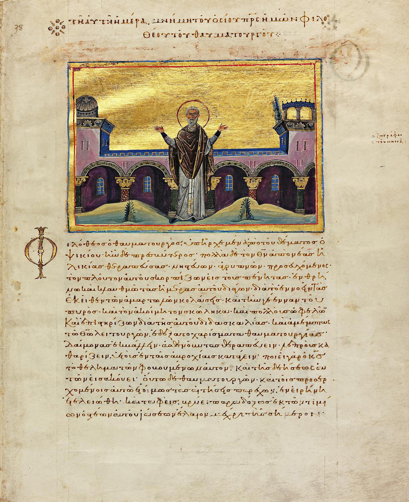 The holy Filofej (Philotheus) Mravinsky from Myrmex (Bythnia) as a presbyter and wonderworker. Byzantine miniature from the Menologion of Basil II, ca. 985 AD. Vatican Library, Rome.